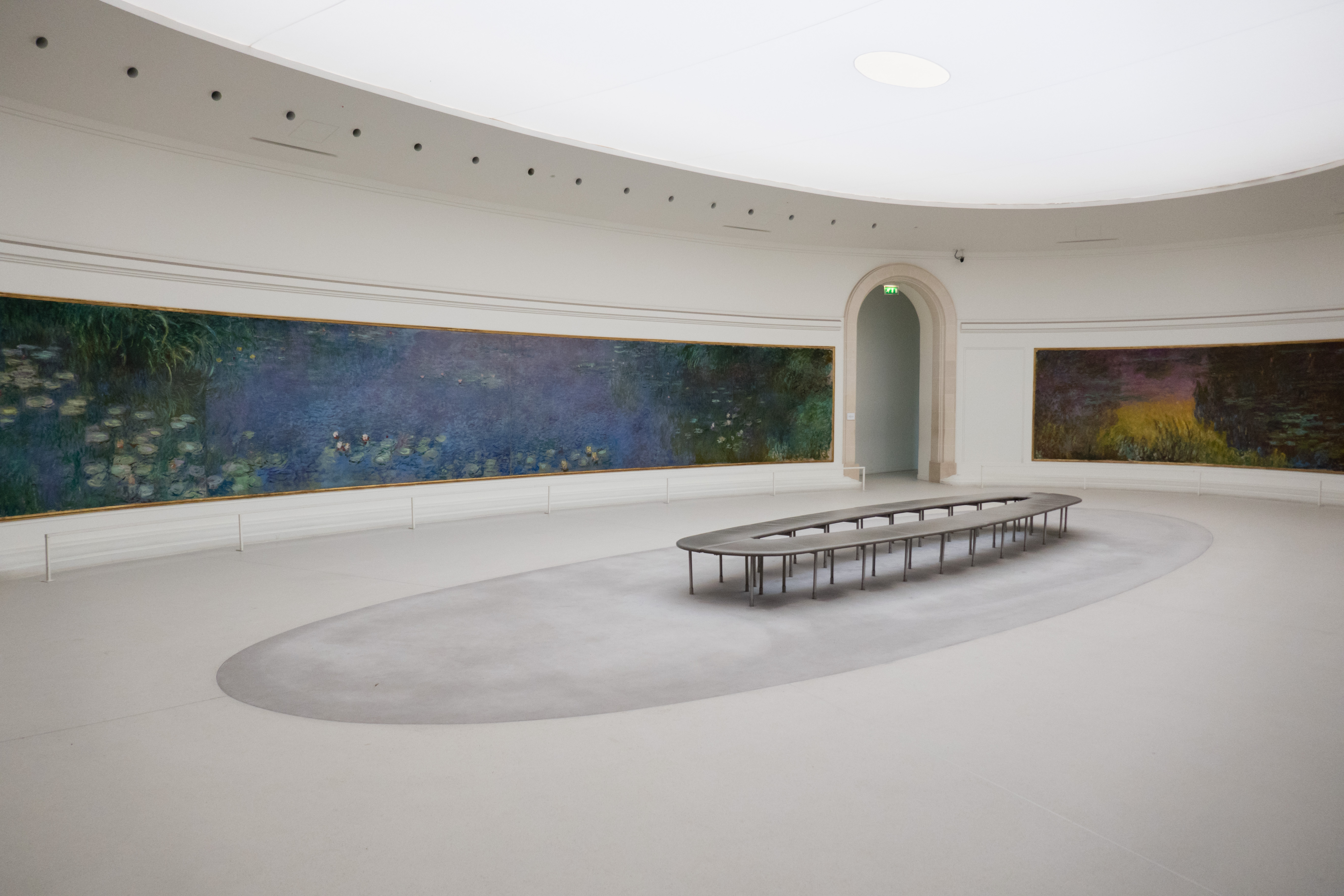 One of two rooms in the Musée de l'Orangerie containing some of Monet's Water Lilies. Pictured: The Water Lilies: Morning and The Water Lilies: Setting Sun Also contained in the room: The Water Lilies: The Clouds, The Water Lilies: Green Reflections